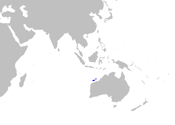 Distribution map for Etmopterus fusus